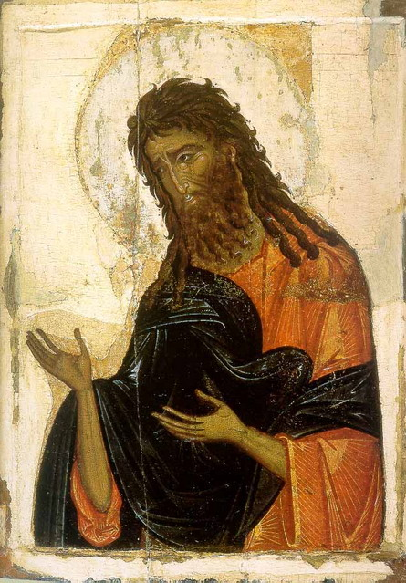 John the Baptist, a Byzantine icon Hermitage Museum Native nameГосударственный ЭрмитажLocationSaint PetersburgCoordinates59° 56′ 26″ N, 30° 18′ 49″ E Established1764Web pagehermitagemuseum.orgAuthority control : Q132783 VIAF: 128956287 ISNI: 0000 0001 2285 6617 LCCN: n79100241 NLA: 35139924 GND: 2124053-X WorldCat institution QS:P195,Q132783